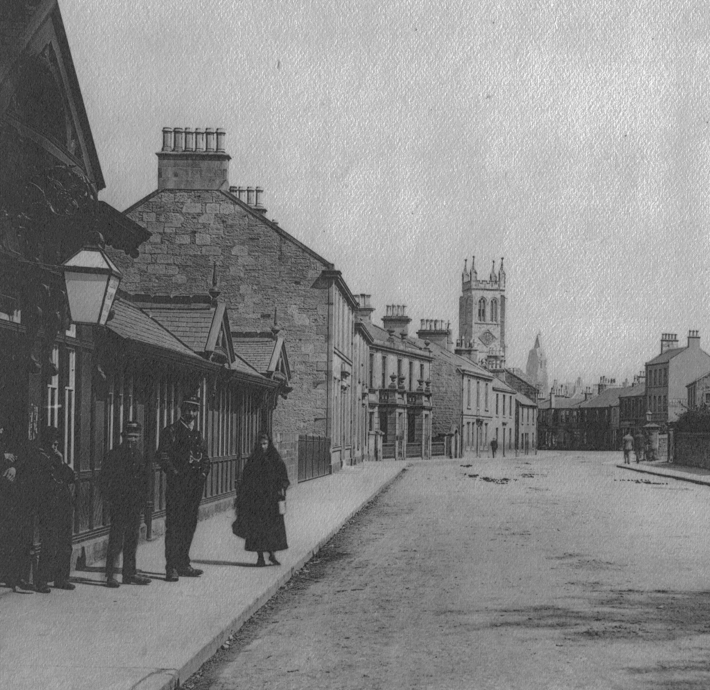 A view of the entrance to Kilwinning Station, Caledonian Railway, North Ayrshire, Scotland.